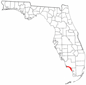 Modified from one of the FLMAP-doton- maps by User:Dalbury, Donald Albury, on April 10, 2006